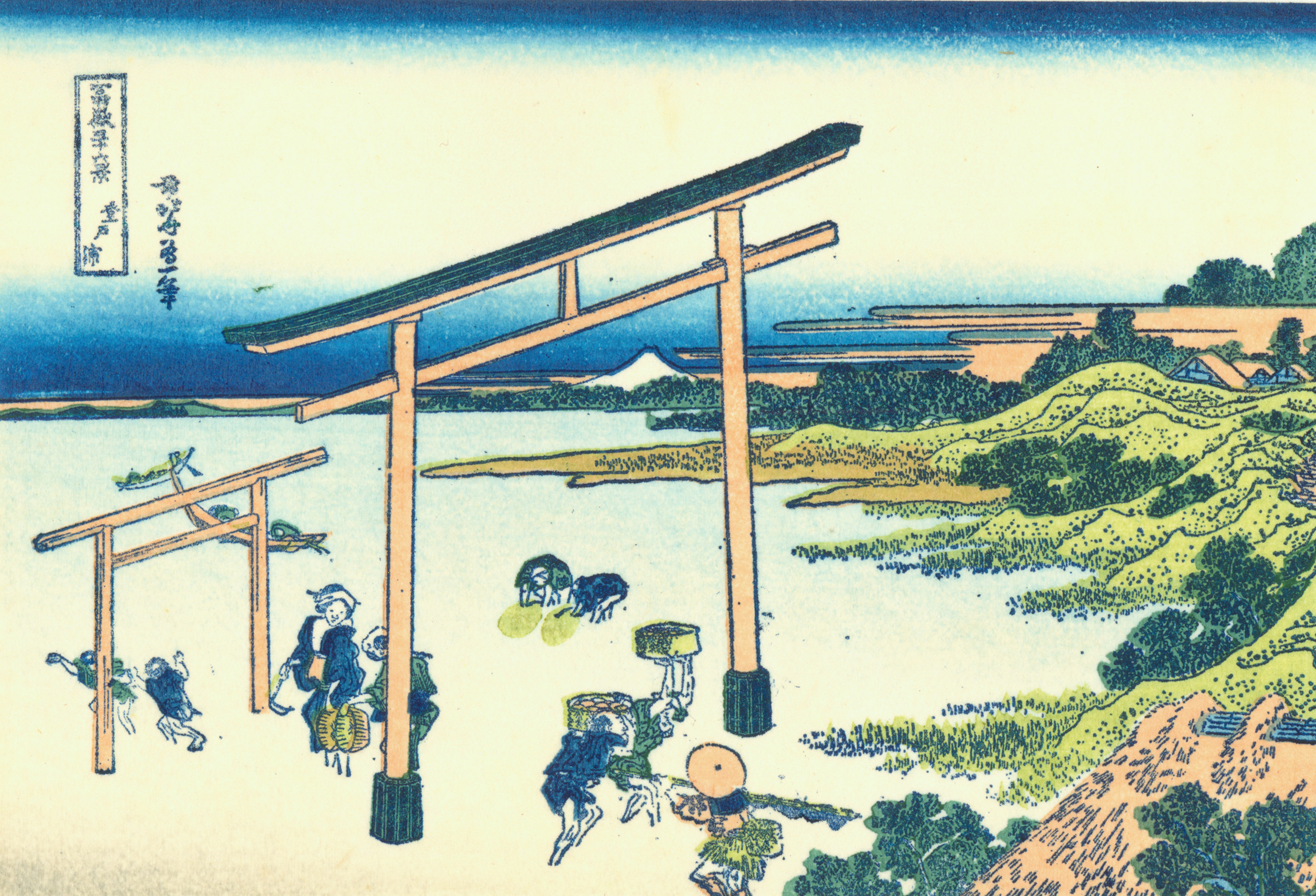 Part of the series Thirty-six Views of Mount Fuji, no. 18.